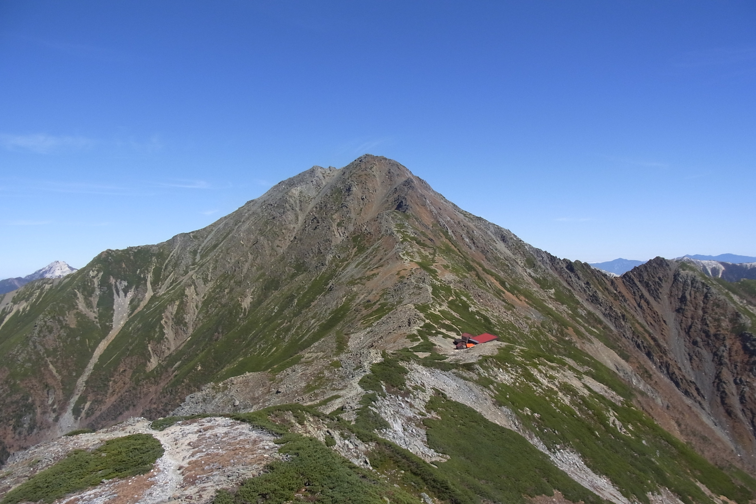 Mount Kita seen from the southwest. Taken from Mount Nakashirane.